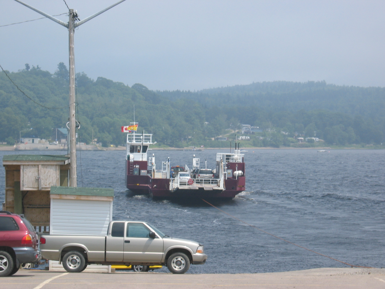 Cable ferry connecting Hardings Point and Westfield, New Brunswick, Canada.